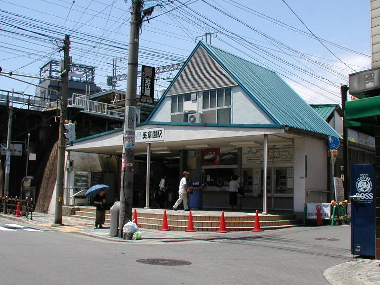 East side of Bishōen Station on the Hanwa Line of West Japan Railway Company (JR West) in Abeno-ku, Osaka, Japan